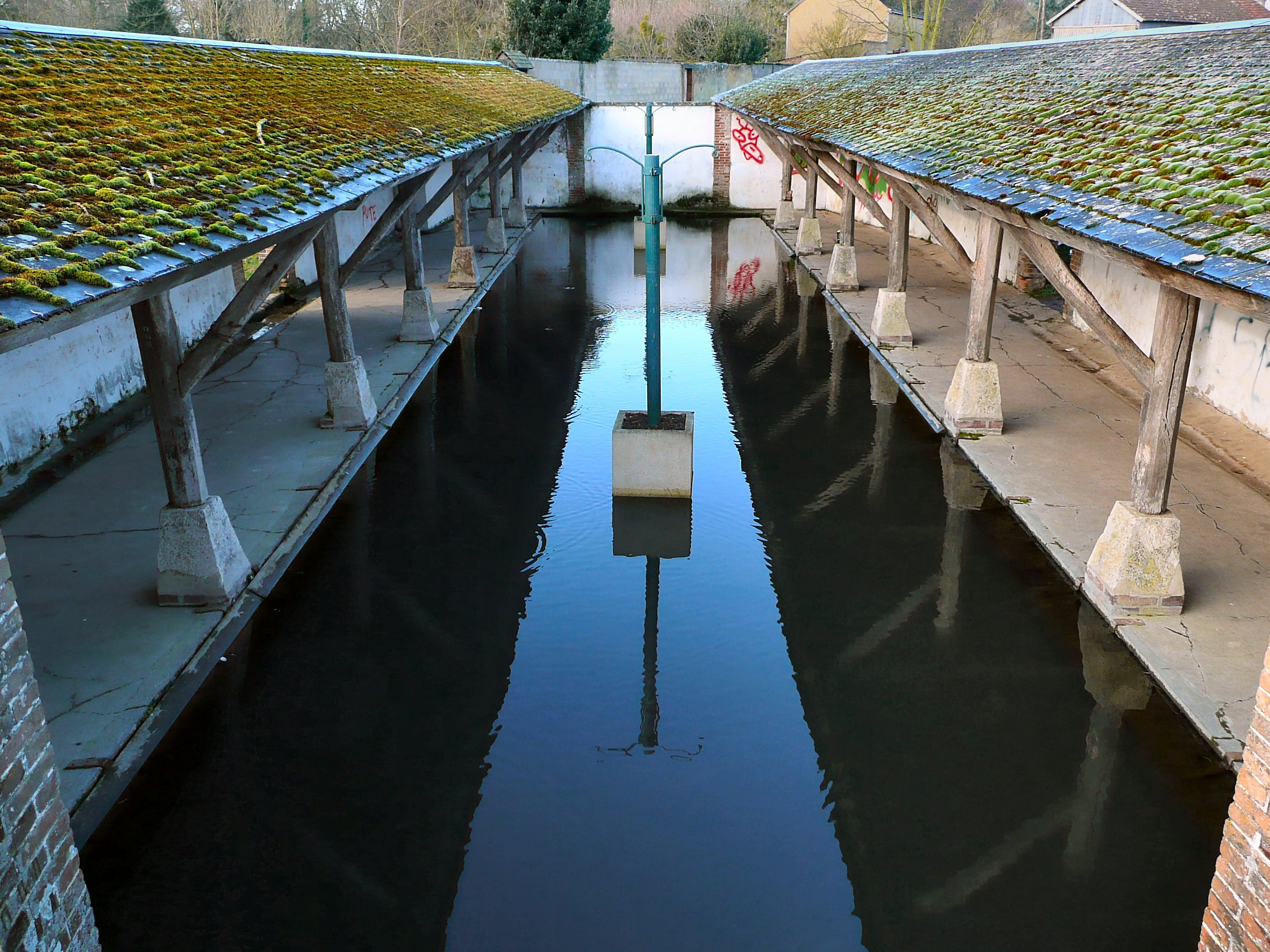 Wash houses in Illiers-Combray